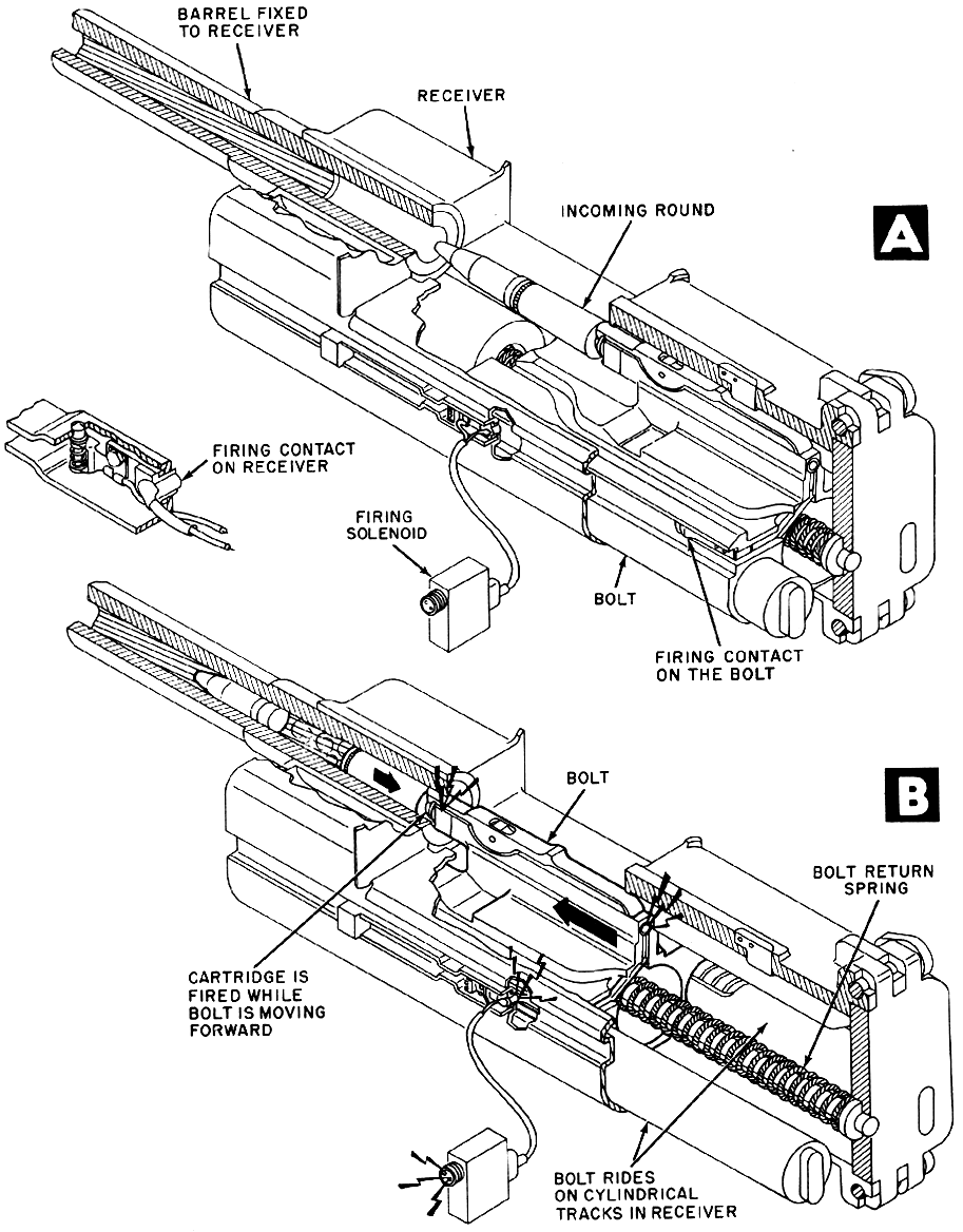 Bolt cycle of the MK108 cannon (part I)